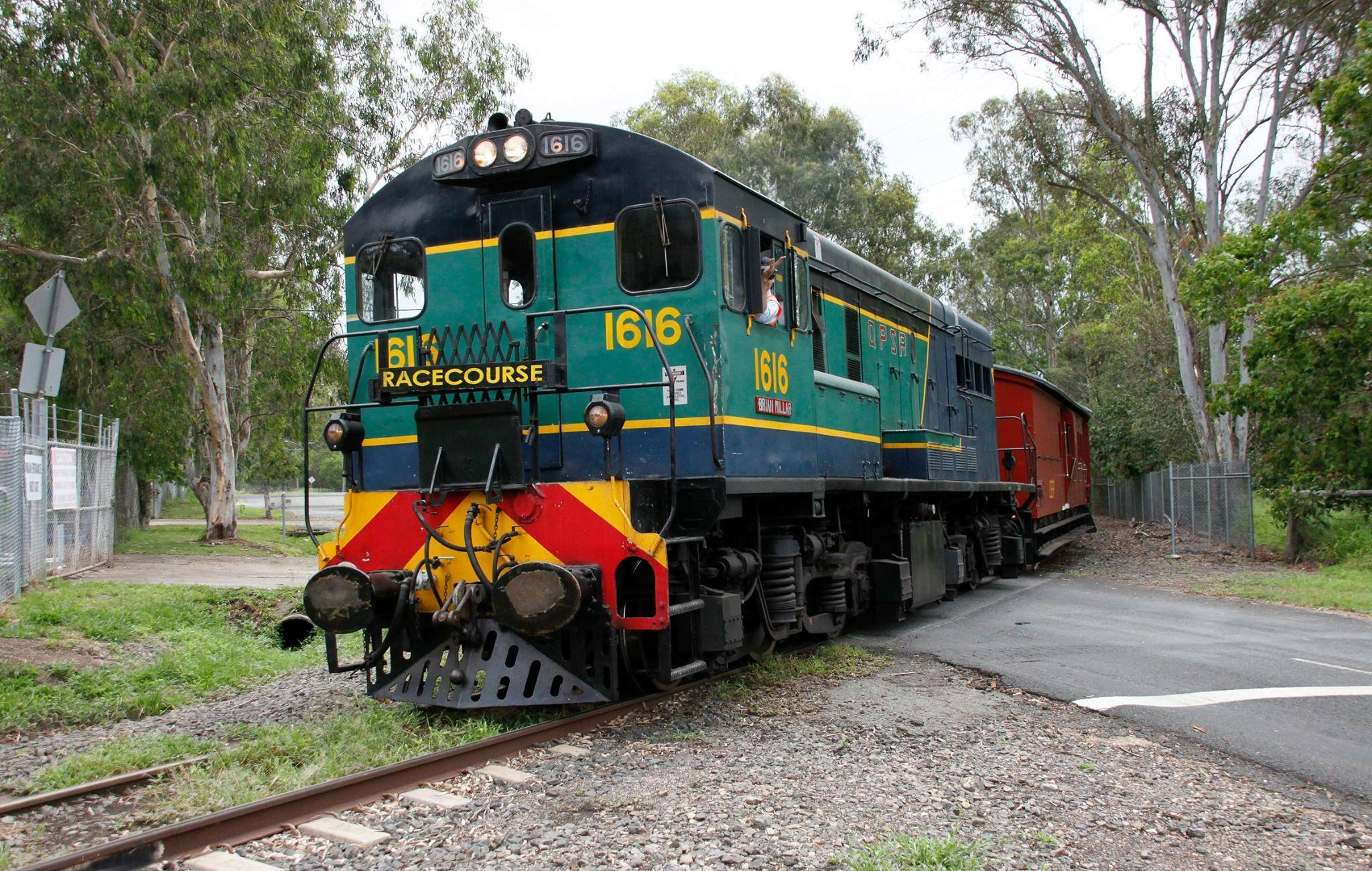 1616 on ella st bundamba